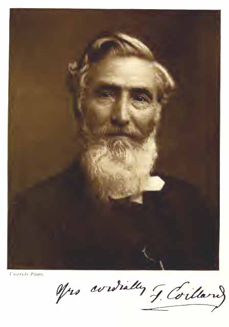 Portrait of François Coillard (1834-1904), author of - "On the Threshold of Central Africa" - American Tract Society, New York (1903)